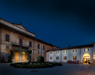 Museum entrance